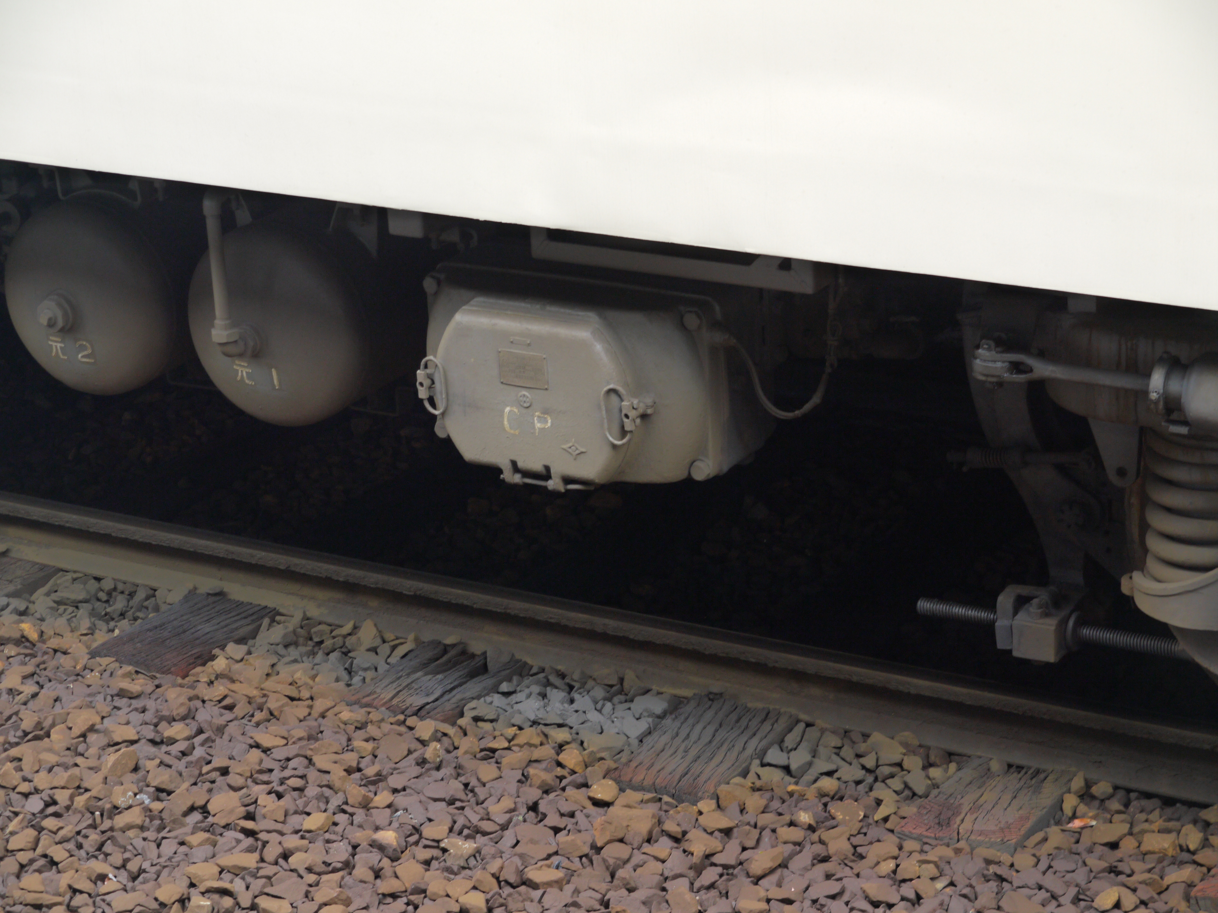 Electric powered air compressor type DH-25 on Eizan Railway Deo 721